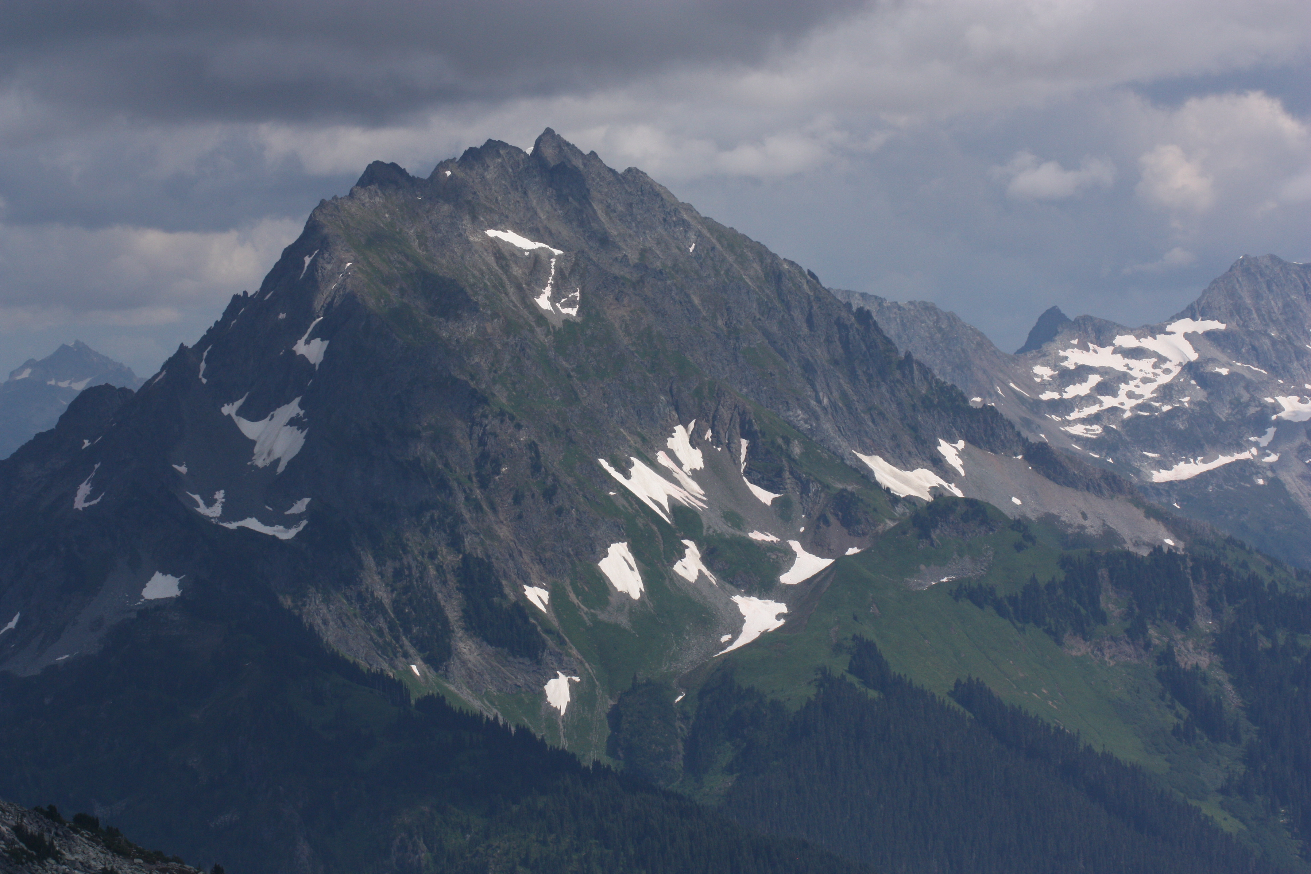 Johannesburg Mountain (8220 ft, 2505 m) Viewpoint location: Hidden Lake Trail, North Cascades National Park Viewpoint elevation: 1794 meter (5885 ft) View direction: 112° Location source: Garmin GPSmap 60CSx Location Datum: WGS84